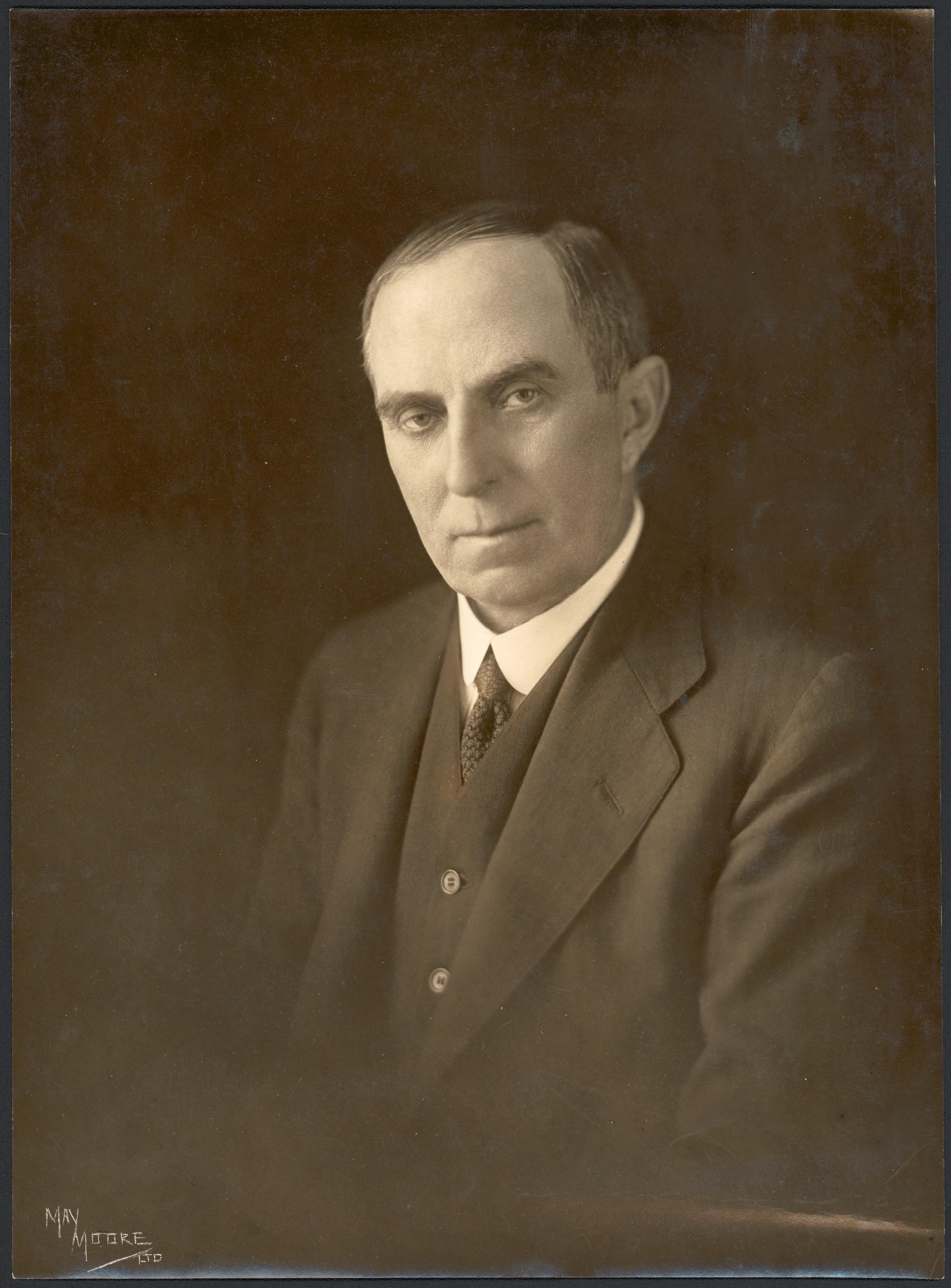 Australian politician Herbert Pratten